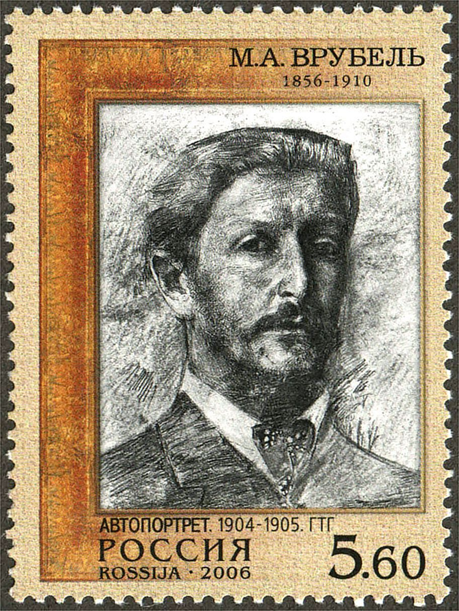 150th birth anniversary of the Russian painter Mikhail Vrubel (1856–1910).The Self-Portrait of Mikhail Vrubel. 1904–1905.The stamp of Russia, 5.60 Rubles, 27 February 2006, PTC Marka Catalogue No 1077, Michel No 1309. Coated paper. Offset printing, varnish coating. Perforation: comb 12. Size of the stamp: 37×50 mm. Print run: 600,000.